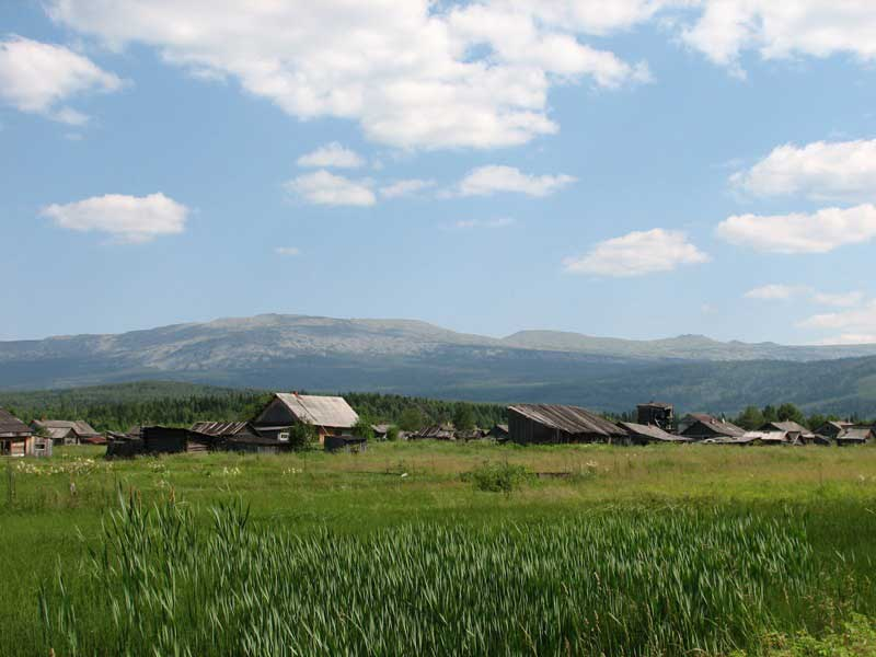 View from the village Bolschaja Osljanka in direction SE to the Osljanka